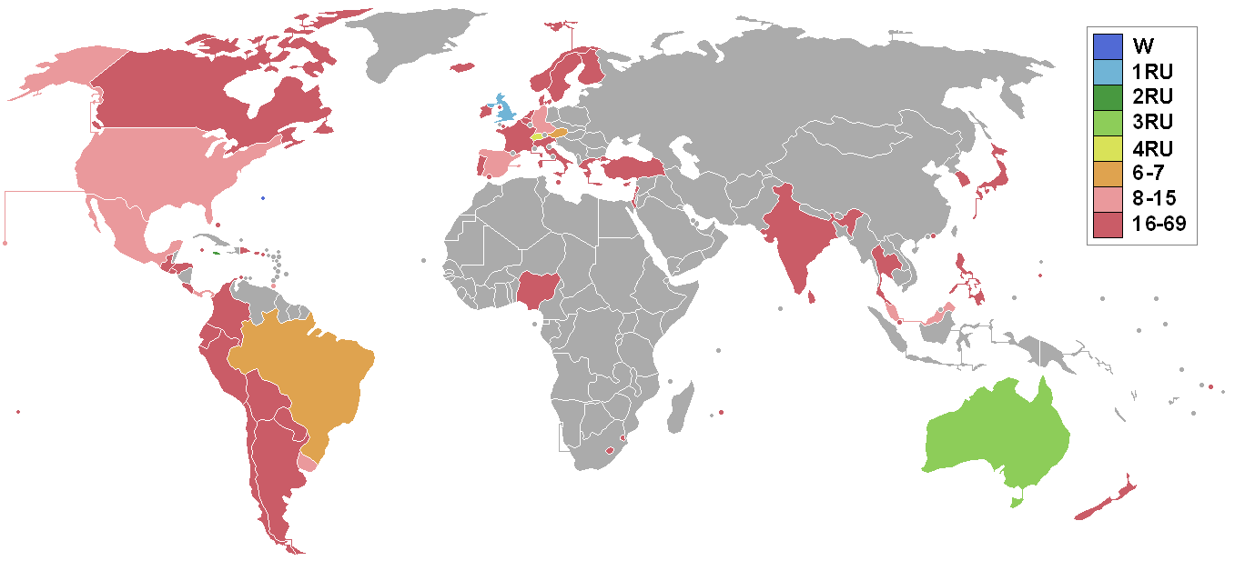 image created by Joey80